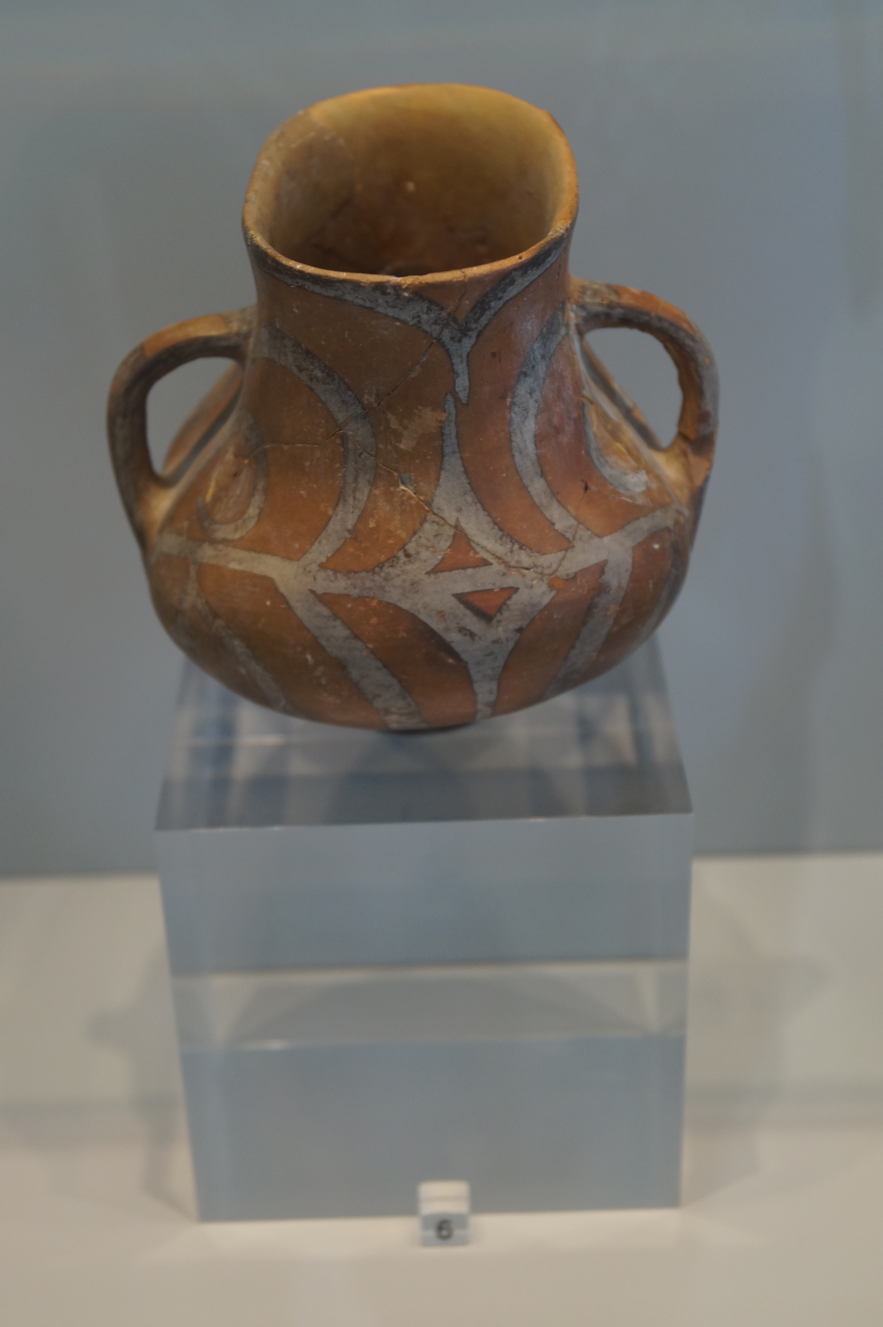 Krinides, Makedonia, Greece: Archaeological Museum of Philippi: Black-on-red decorated vessel, Late Neolithic II (4800-4200 BC)